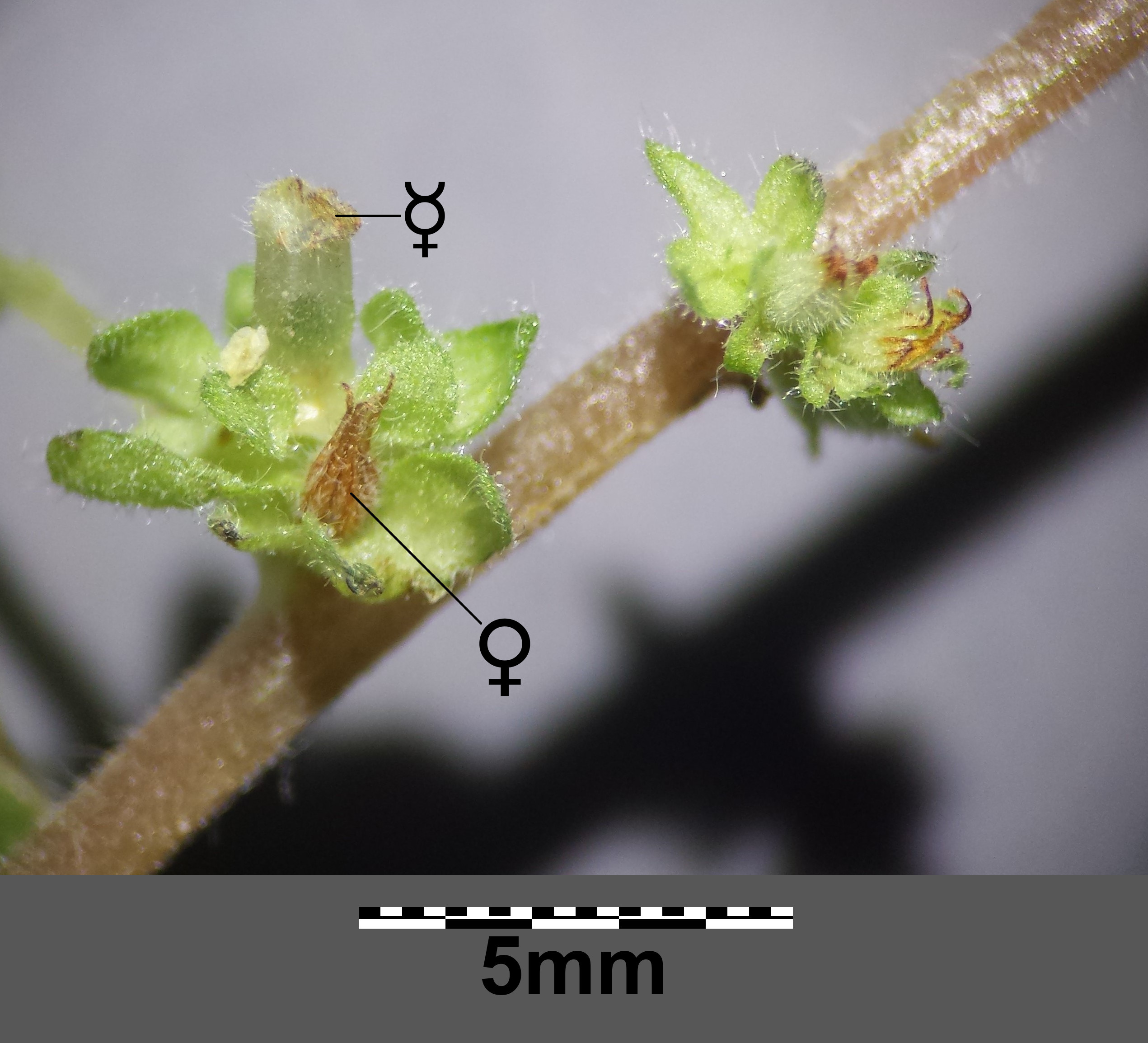 Inflorescence with ♀ and ☿ flowers Taxonym: Parietaria judaica ss Fischer et al. EfÖLS 2008 ISBN 978-3-85474-187-9 Location: Italienerschleife at Martha-Steffy-Browne-Gasse, Vienna-Floridsdorf - ca. 160 m a.s.l. Habitat: ruderal area under/next to railroad viaduct